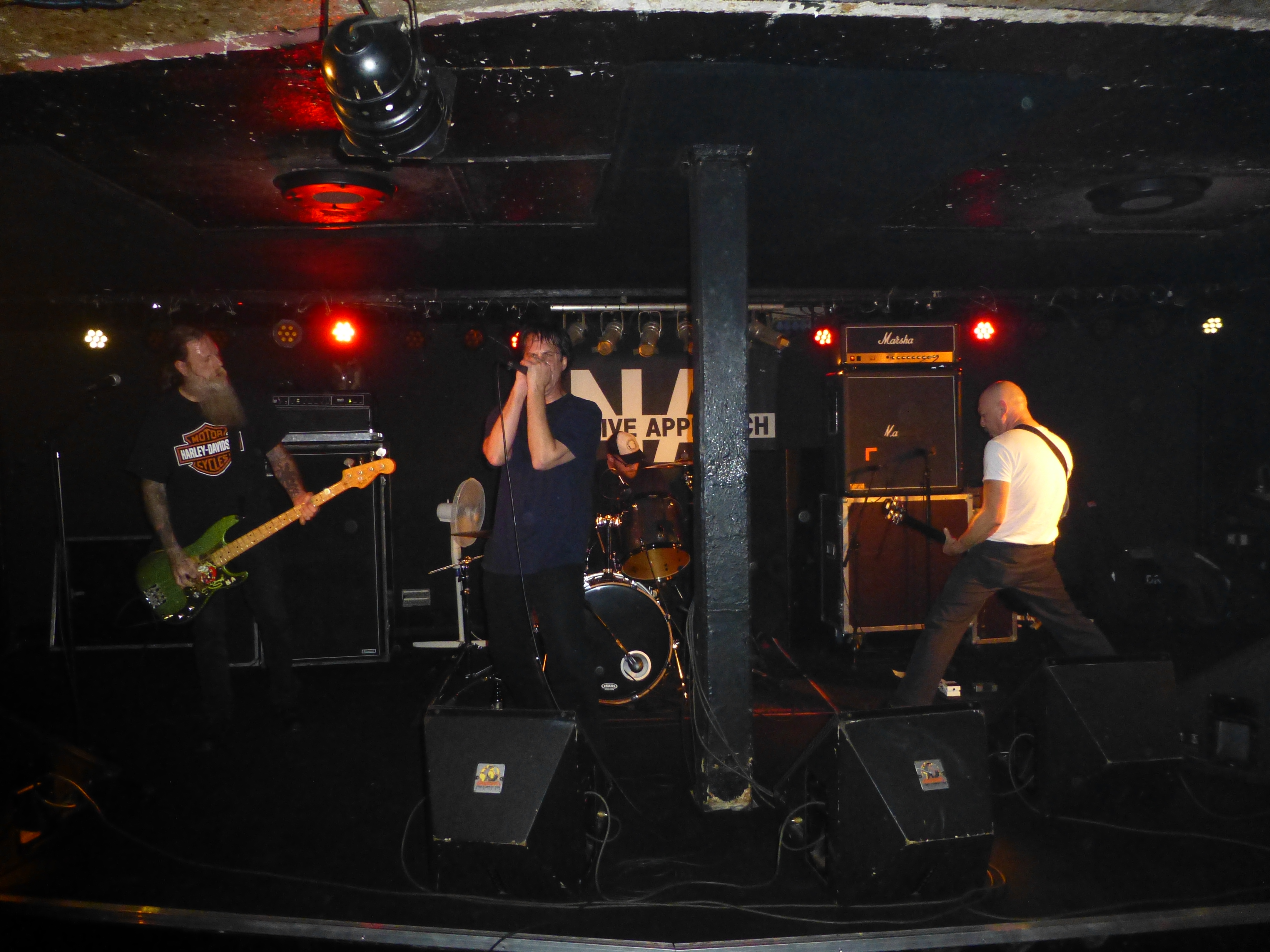 Negative Approach, Hamburg, Logo, 21.10.2015